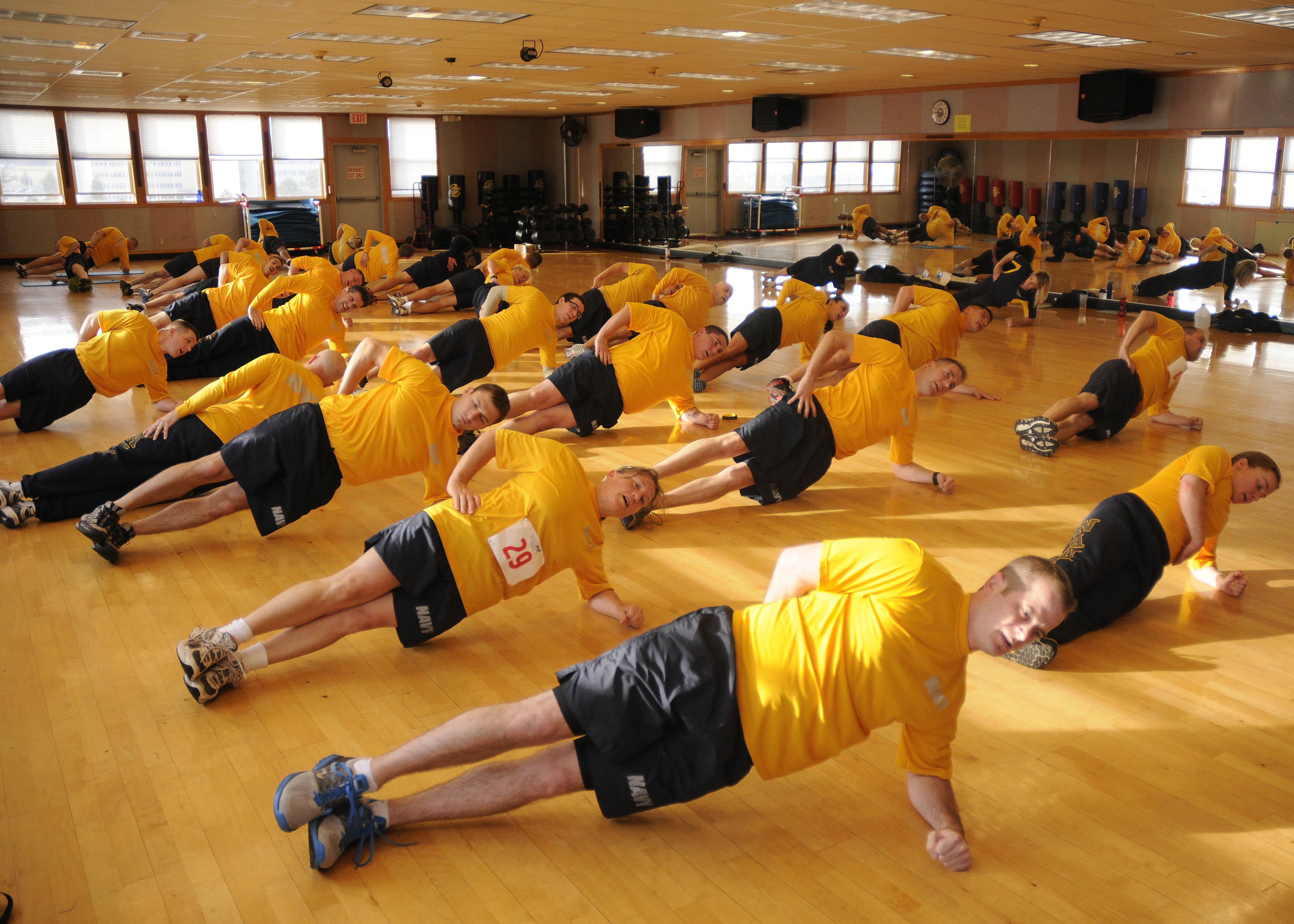 OAK HARBOR, Wash. (Oct. 17, 2011) Sailors conduct a group warm-up exercise during the Command Fitness Leader (CFL) course at Naval Air Station Whidbey Island. The five-day CFL certification course consists of training on conducting the Physical Fitness Assessment (PFA) test, injury preventions, safety and emergency response, nutrition education and physical readiness information management systems (PRIMS). (U.S. Navy photo by Mass Communication Specialist 2nd Class Nardel Gervacio/Released)